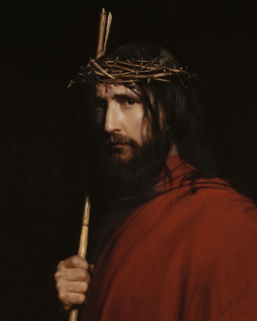 Reproduction of oil on canvas, Christ with Thorns, by Carl Heinrich Bloch